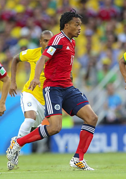 Brazil and Colombia match at the FIFA World Cup 2014-07-04. Juan Cuadrado.